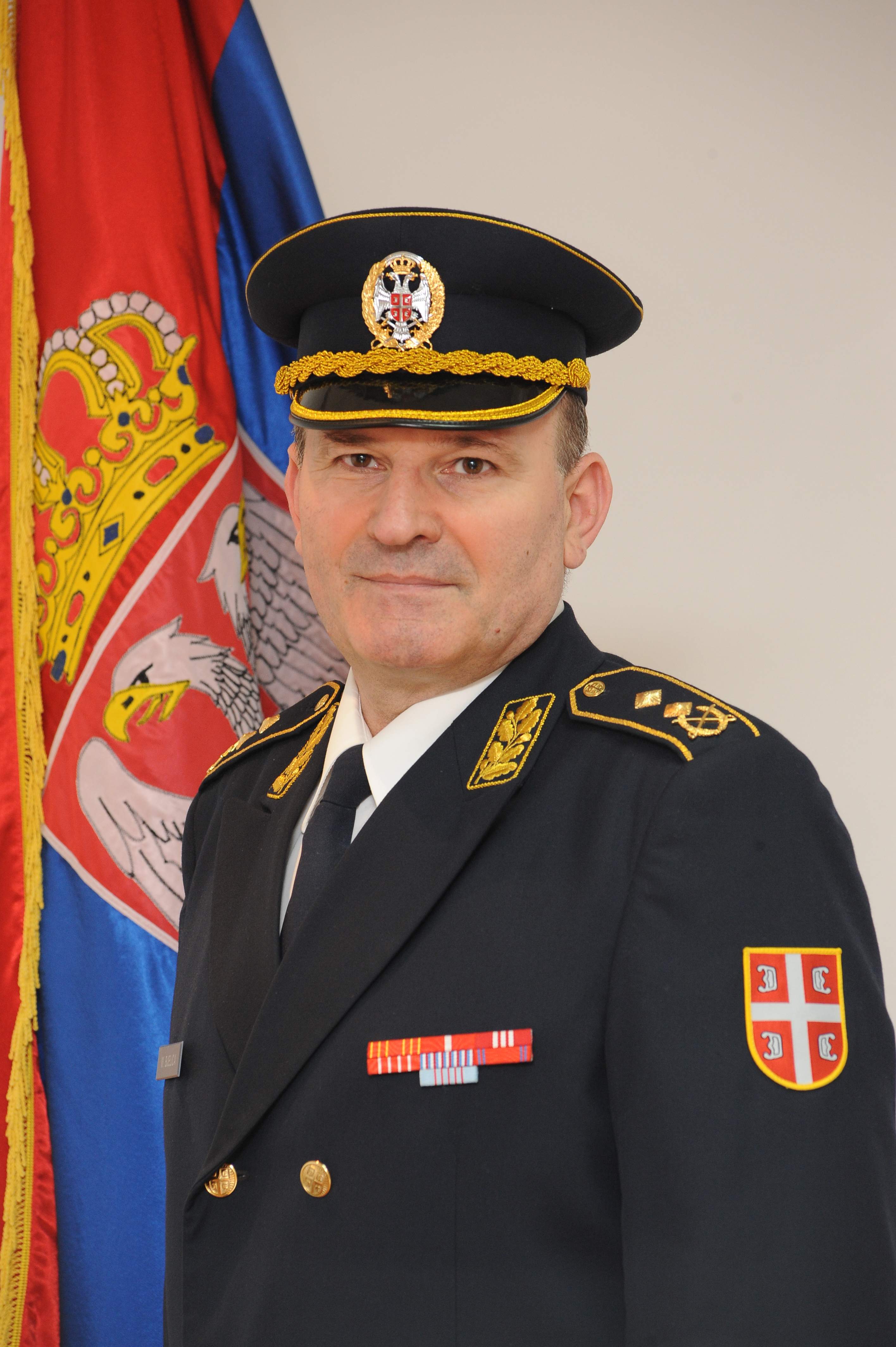 МиланБјелица